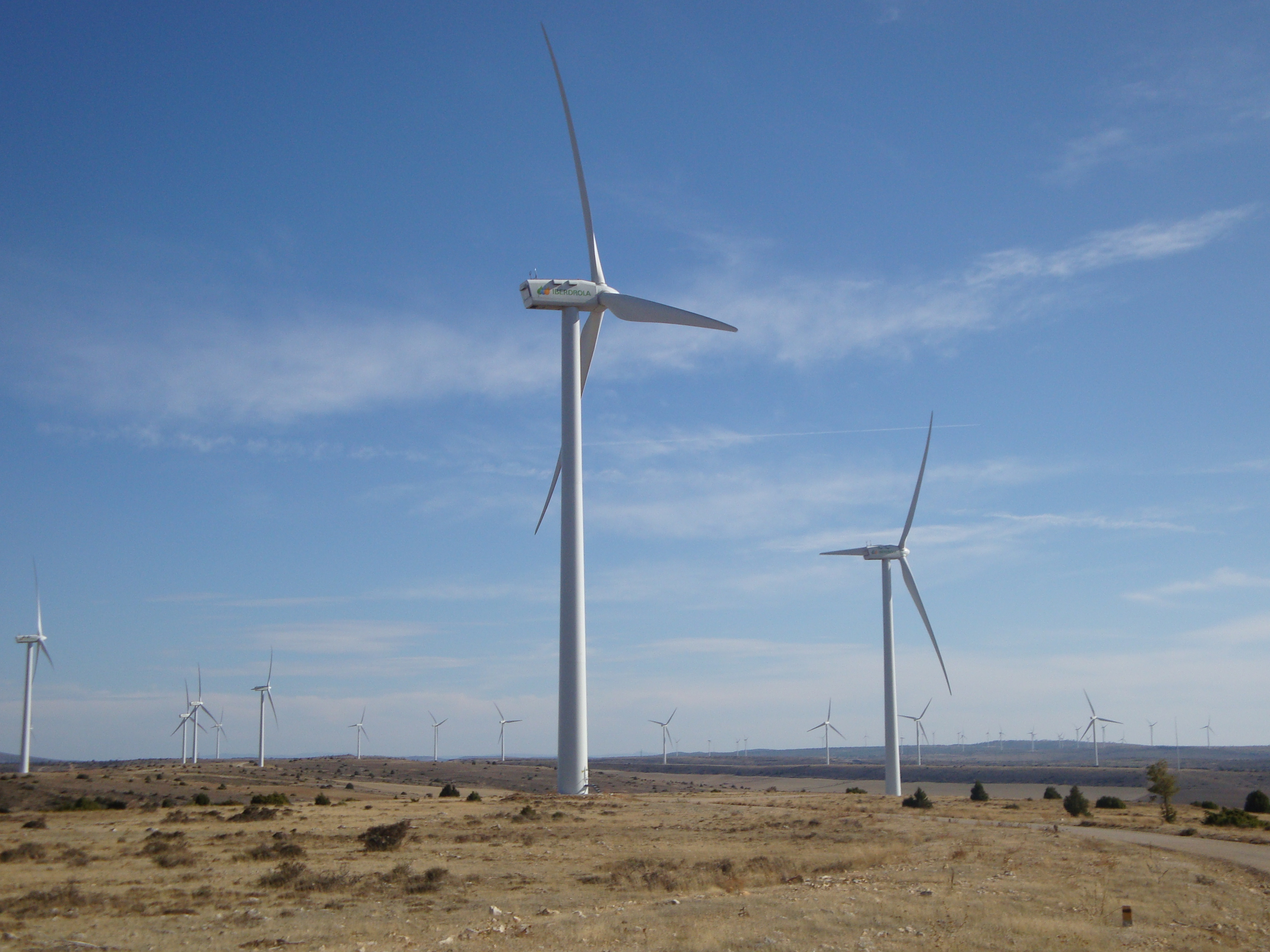 The Maranchon wind park is located in the Gudalajara district of Castilla la Mancha and is one of the biggest windfarms in Europe.